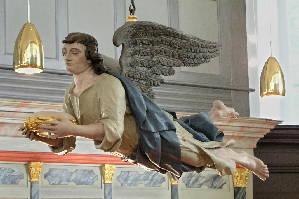 Breitenberg,Schleswig-Holstein, Germany: church, Angel for the ceremony of baptism, photo 2007